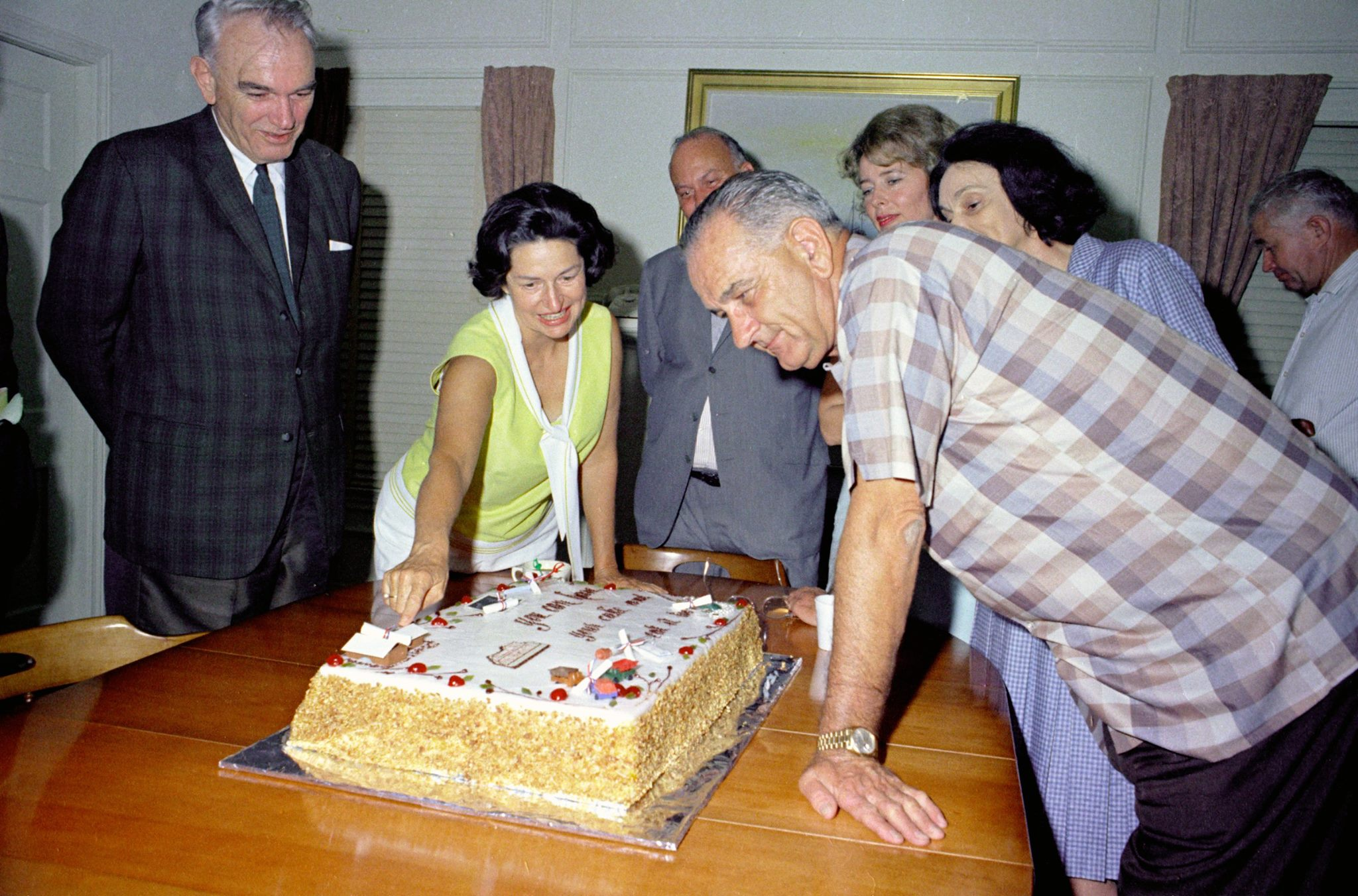 President Lyndon B. Johnson looks at his birthday cake. Lady Bird and others look on